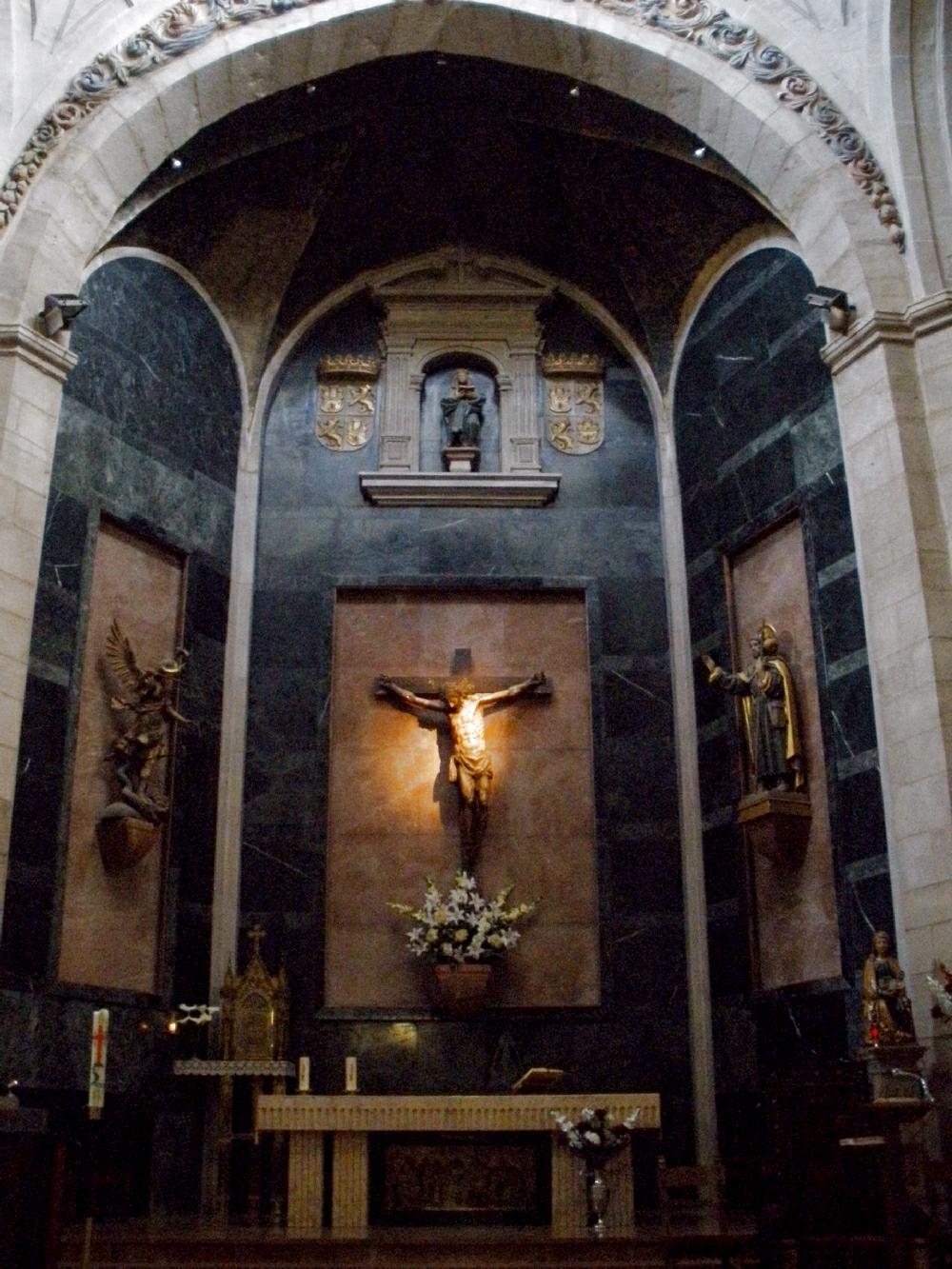 Iglesia parroquial de Santa Cruz, en Nájera (La Rioja, España)